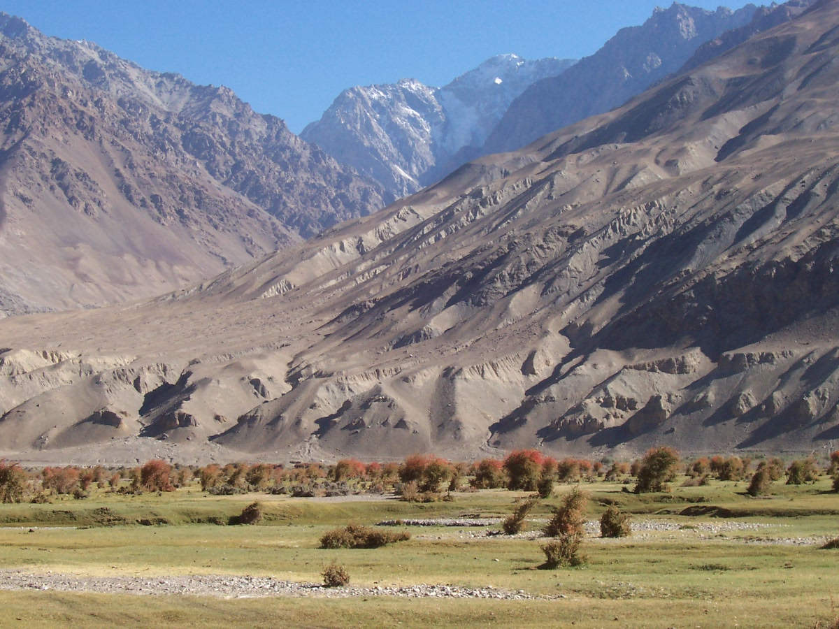 Valley of Kuran wa Munjan, Badakhshan, Afghanistan. Looking from the center of the main valley towards the south.